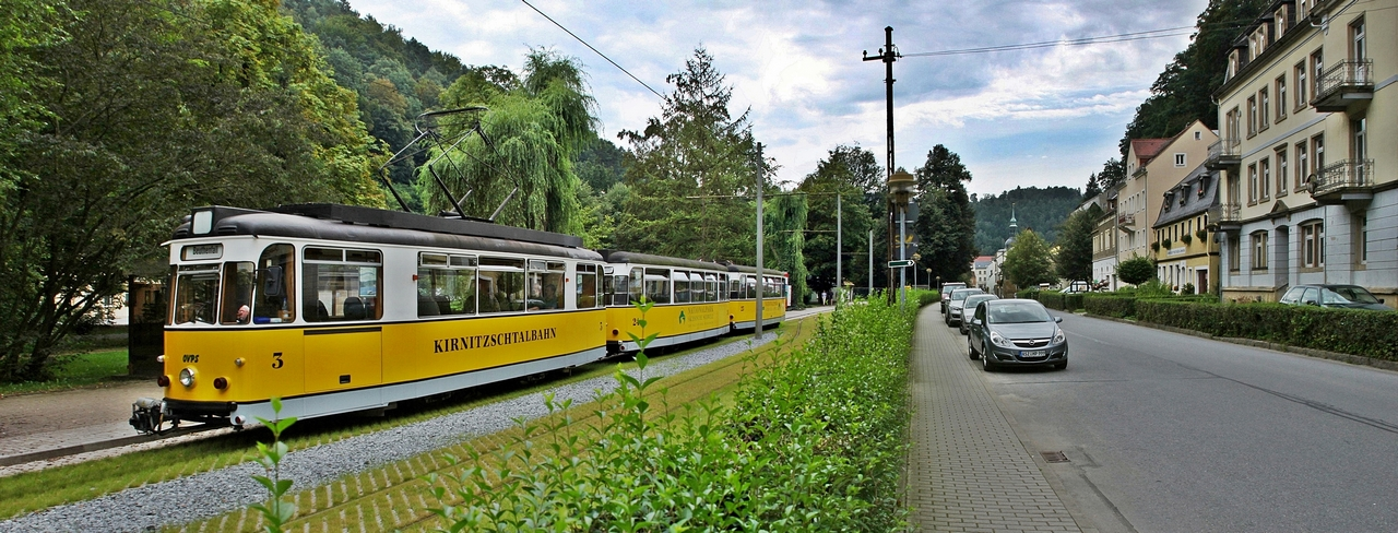 This image shows a train of the Kirnitzschtal Tramway at the station „Bad Schandau Stadtpark“.